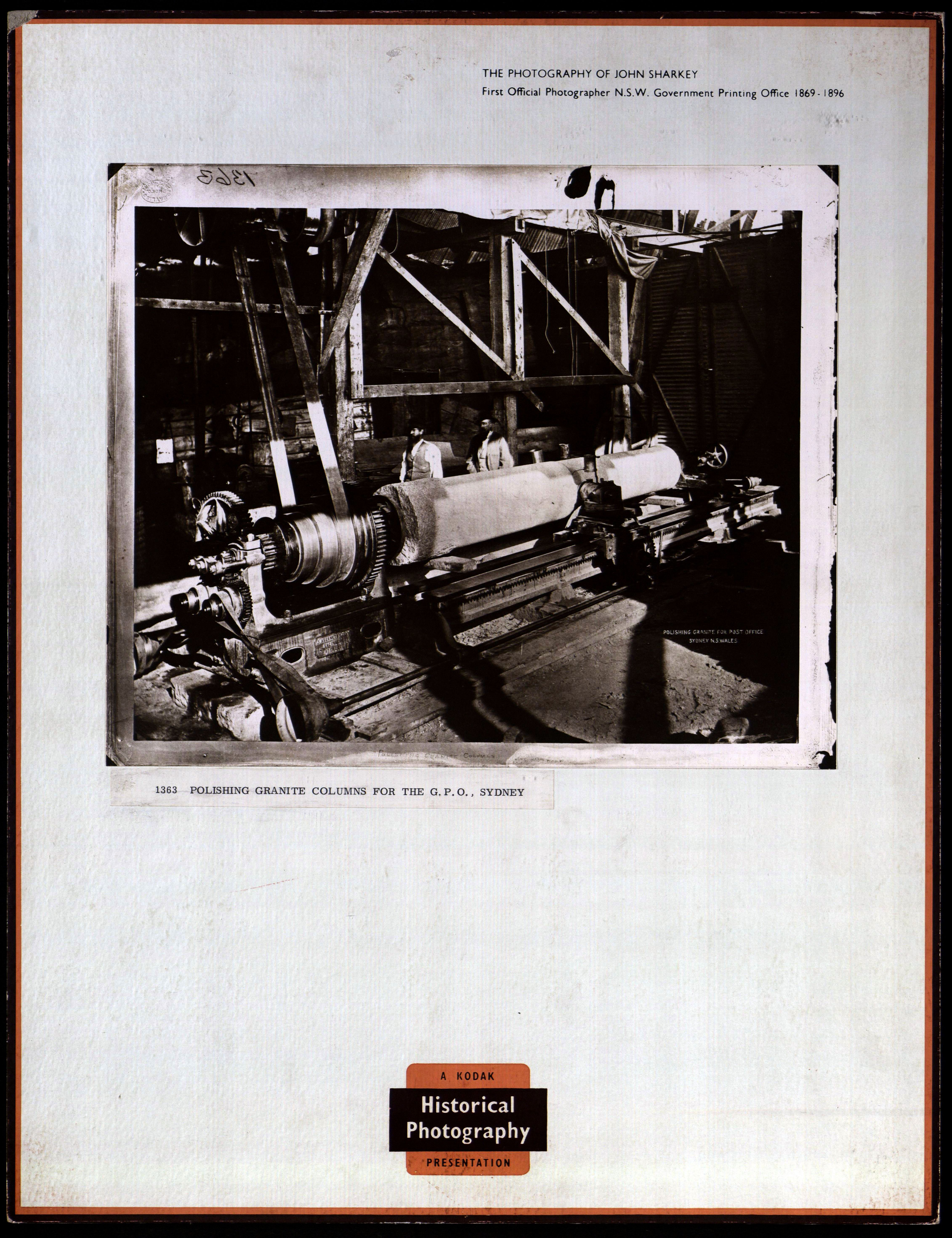 Designed by James Barnette, Sydney's General Post Office was constructed over the time period from 1866 - 1891. It is located at the end of Martin Place between Pitt and George St. The building was the location of NSW Postal system's head office until 1996, when it was sold and refurbished. It appears that the granite column in the picture taken by Sharkie could be the columns bordering either side of the Queen Victoria Statue located over the buildings main entrance. Sources